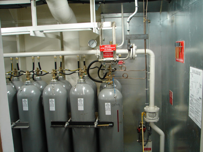 The CO2 fire extinguishing system on the Argonaute.